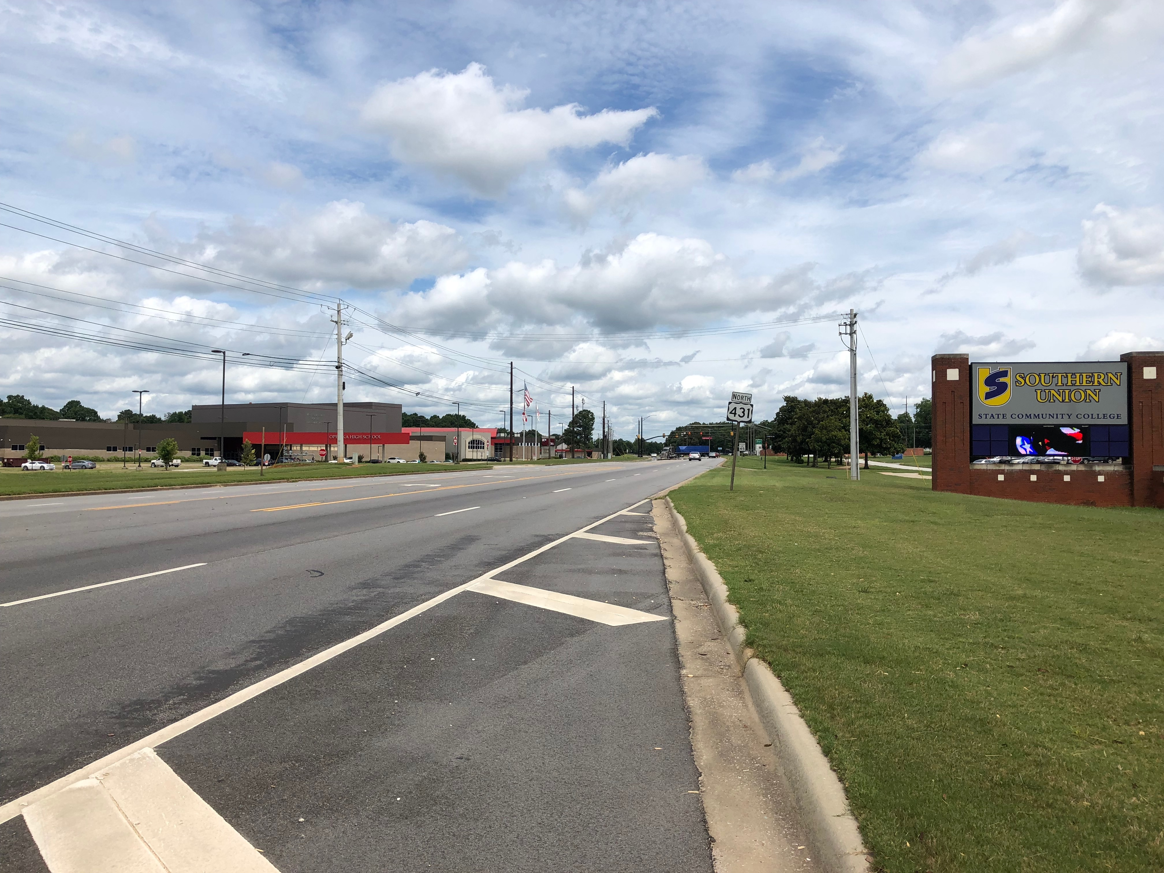 Opelika High School and Southern Union State Community College